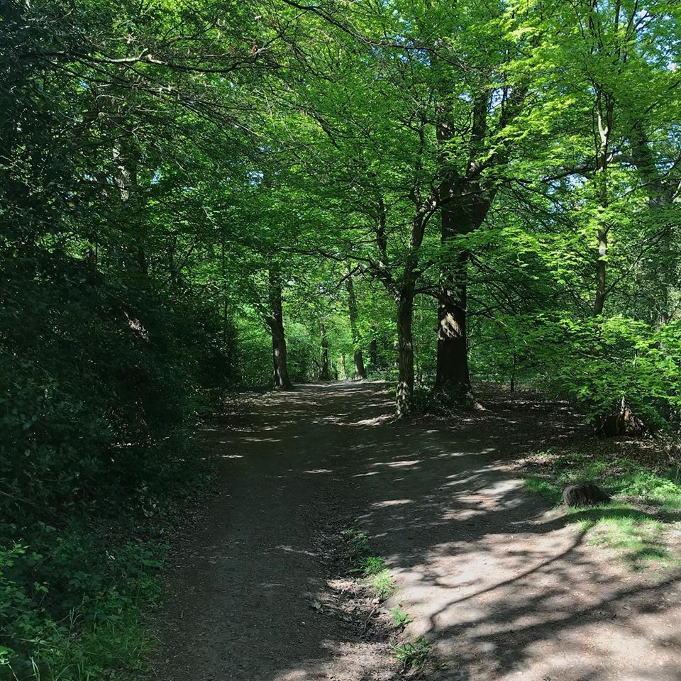 A picture of Monken Hadley Common in Spring